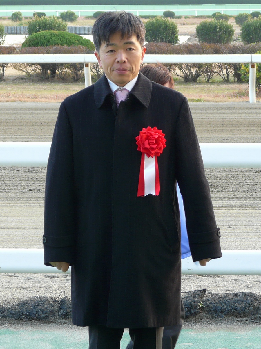 Tomohiko-Hatsuki20101223